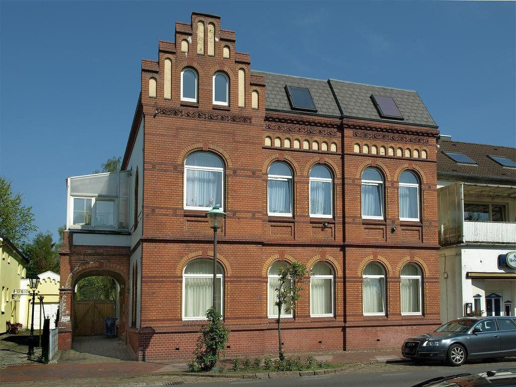 Uetersen (Germany), Marktstraße , photo 2008